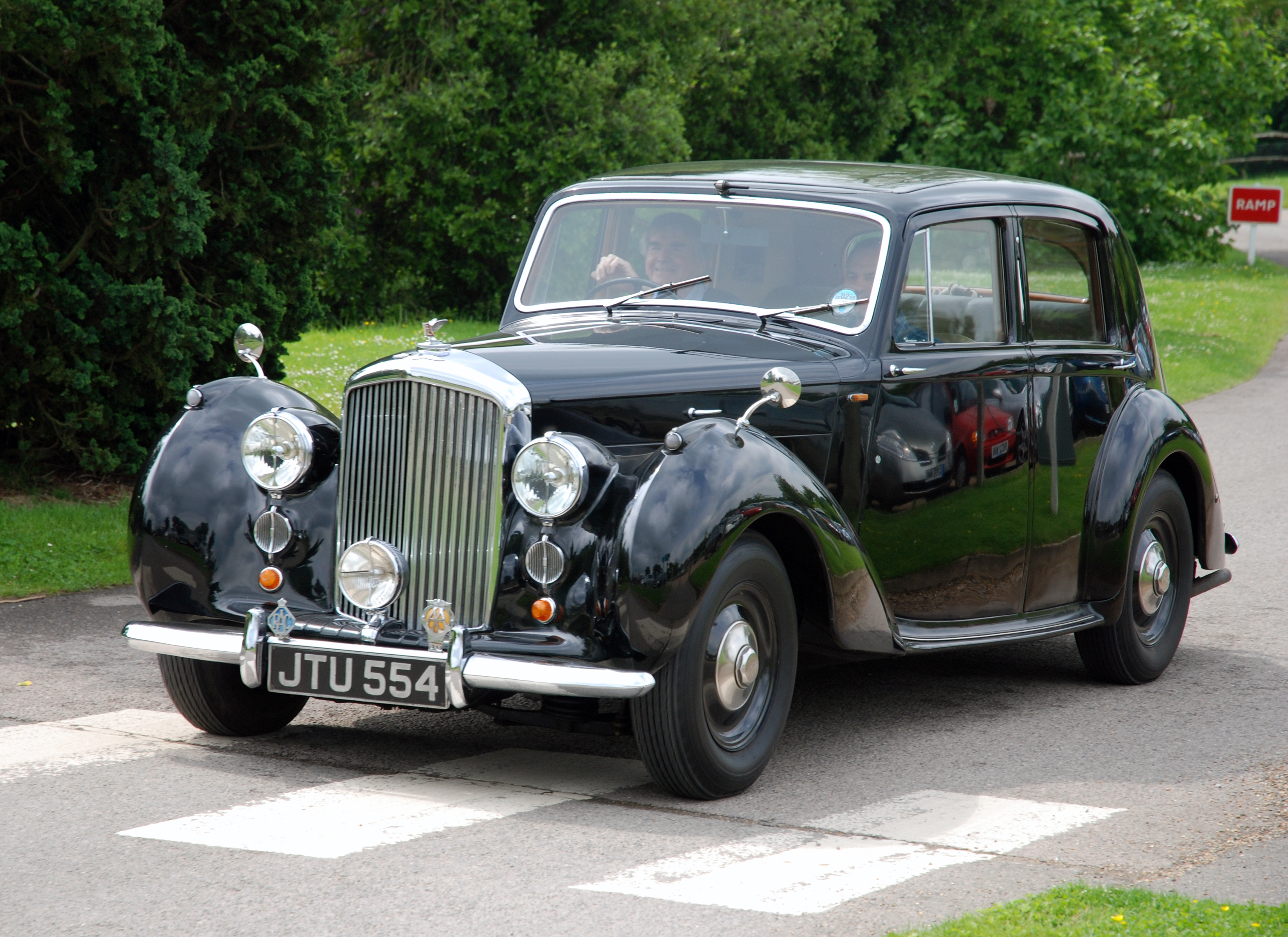 Bentley Mark VI early production (DVLA) first registered 28 October 1947, 4257cc Borde Hill,June 2008